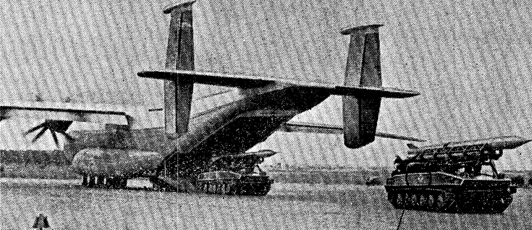 Frog missiles with the Soviet Airborne Troops insignia unloading from the An-22 at the Moscow air show, July 1967.